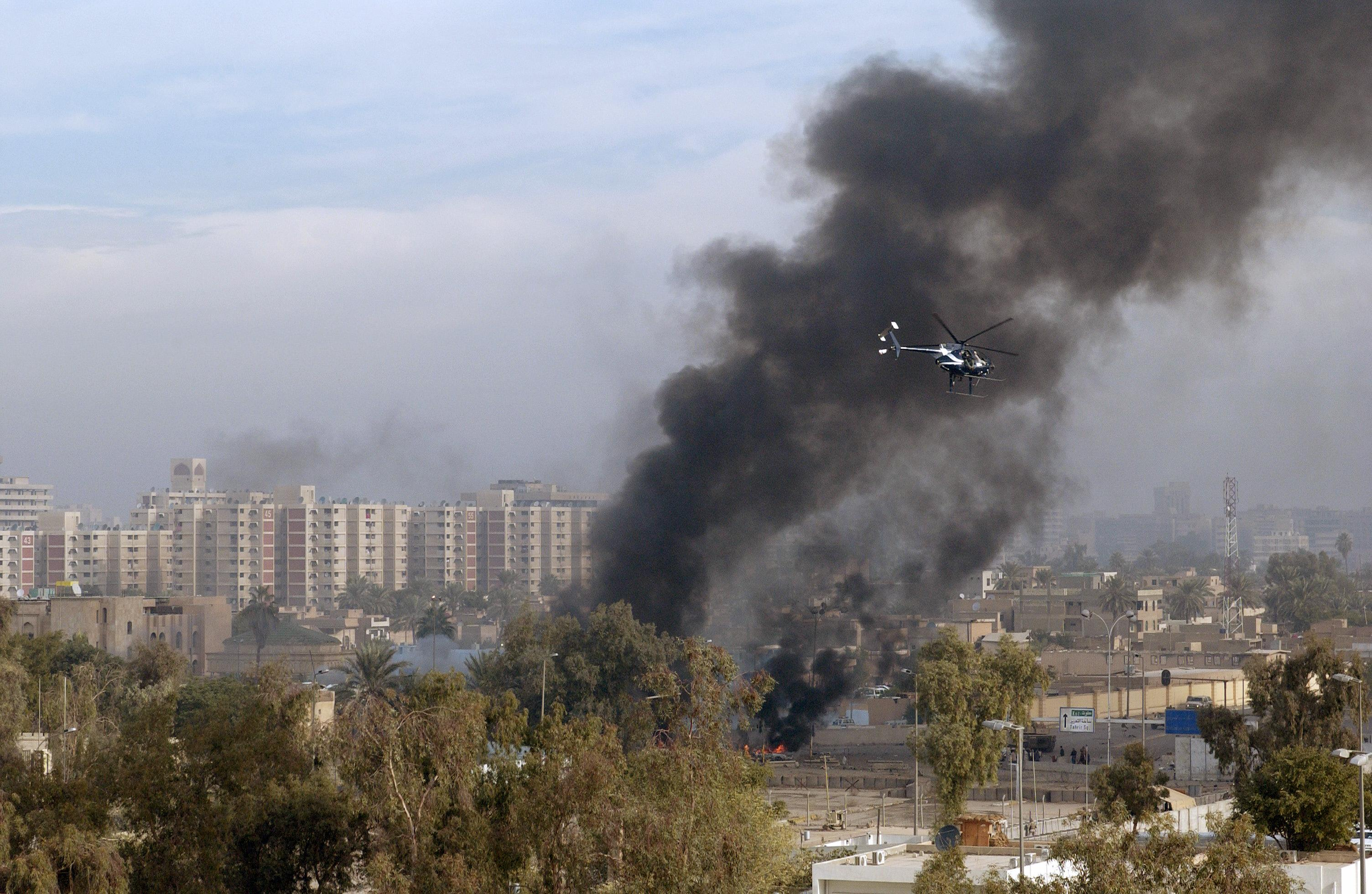 A Blackwater Security Company MD-530F helicopter aids in securing the site of a car bomb explosion in Baghdad, Iraq, on December 4, 2004, during Operation IRAQI FREEDOM.(U.S. Air Force Photo by Master Sgt. Michael E. Best) (Released) (Released to Public)